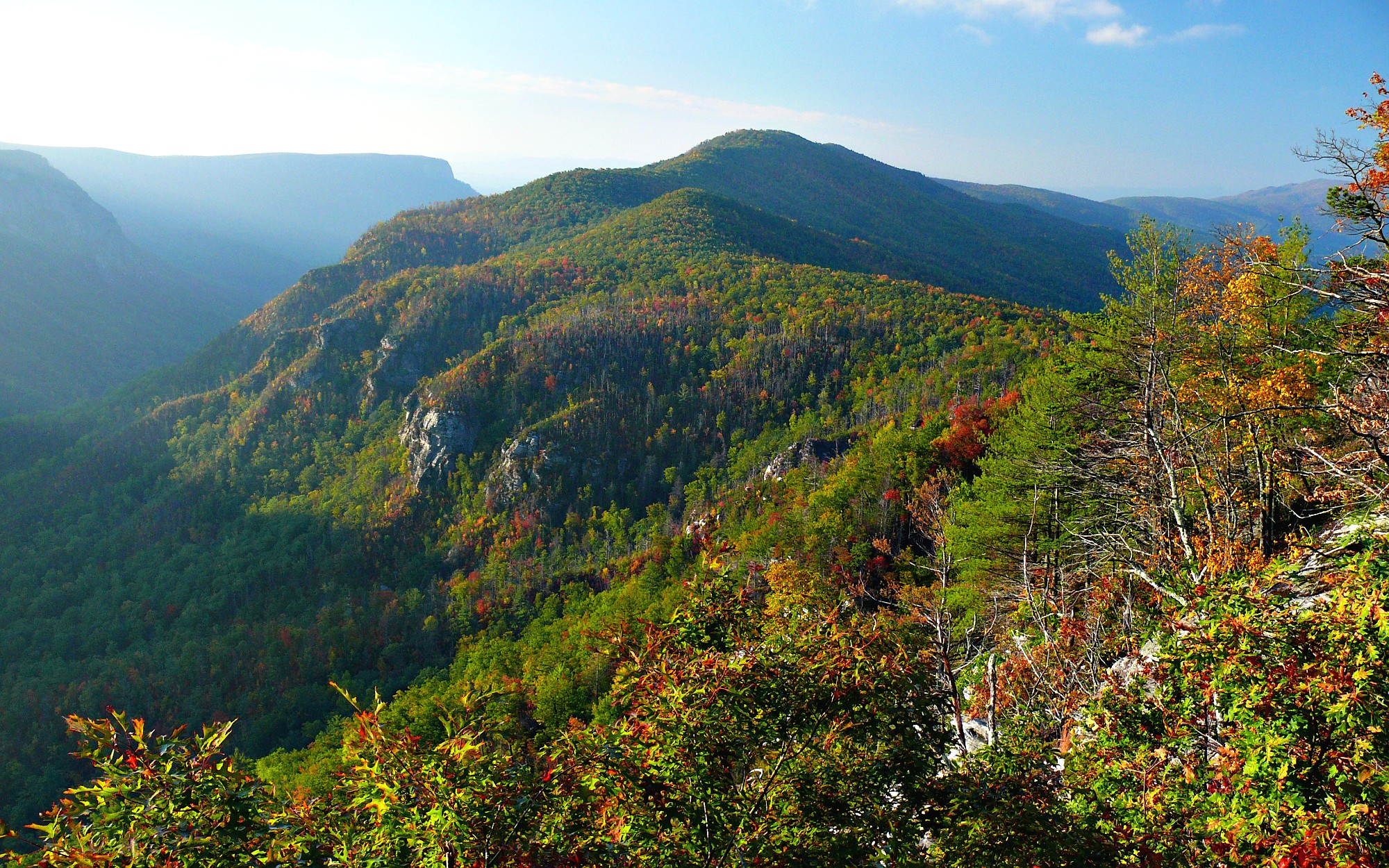 Dogback Mountain at sunrise, as seen from Wiseman's View on the Linville Gorge. Photo taken with a Panasonic Lumix DMC-FZ50 in Burke County, NC, USA.